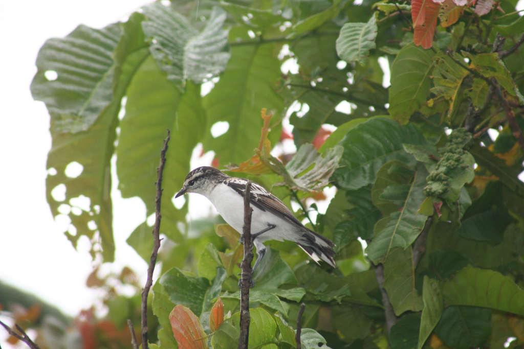 Polynesian Triller (Lalage maculosa) in Nuku 'Alofa, Tonga. One of several subspecies of this widspread Pacific bird.